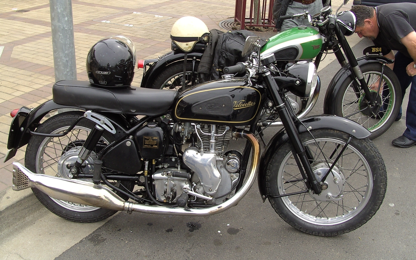 Velocette Venom - New South Wales (Australia) Historic Vehicle 8823.H